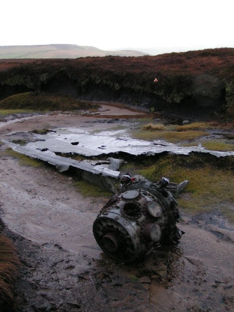 Liberator bomber wreck, Mill Hill. The remains of B-24J Liberator 42-52003 of the 310th Ferry Squadron, 27th Air Transport Group which crashed on 11th October 1944. The hill in the background is Cown Edge, with the Monk's Road summit (SK020922) just visible.